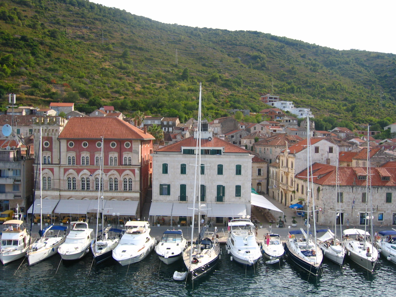 Vis harbor, Island of Vis, Croatia